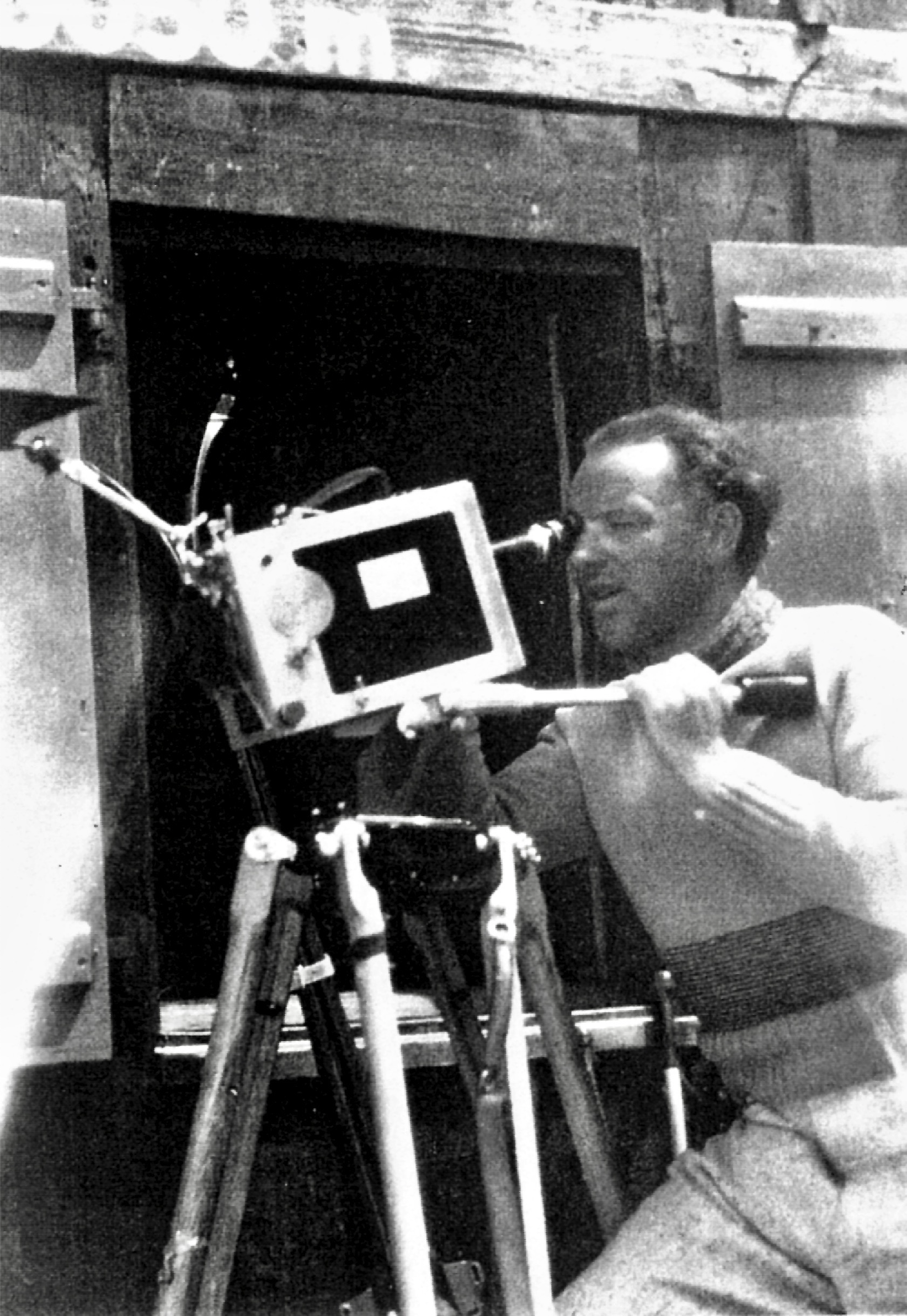 The German film director Arnold Fanck (1889–1974) looks through a Debrie Parvo film camera, a 35mm motion picture camera by André Debrie Constructeurs Paris, in front of the Diavolezza mountain hut in the canton of Grisons in Switzerland. The silent film The White Hell of Pitz Palu was shot in the Bernina Range in the Alps of Eastern Switzerland and Northern Italy.